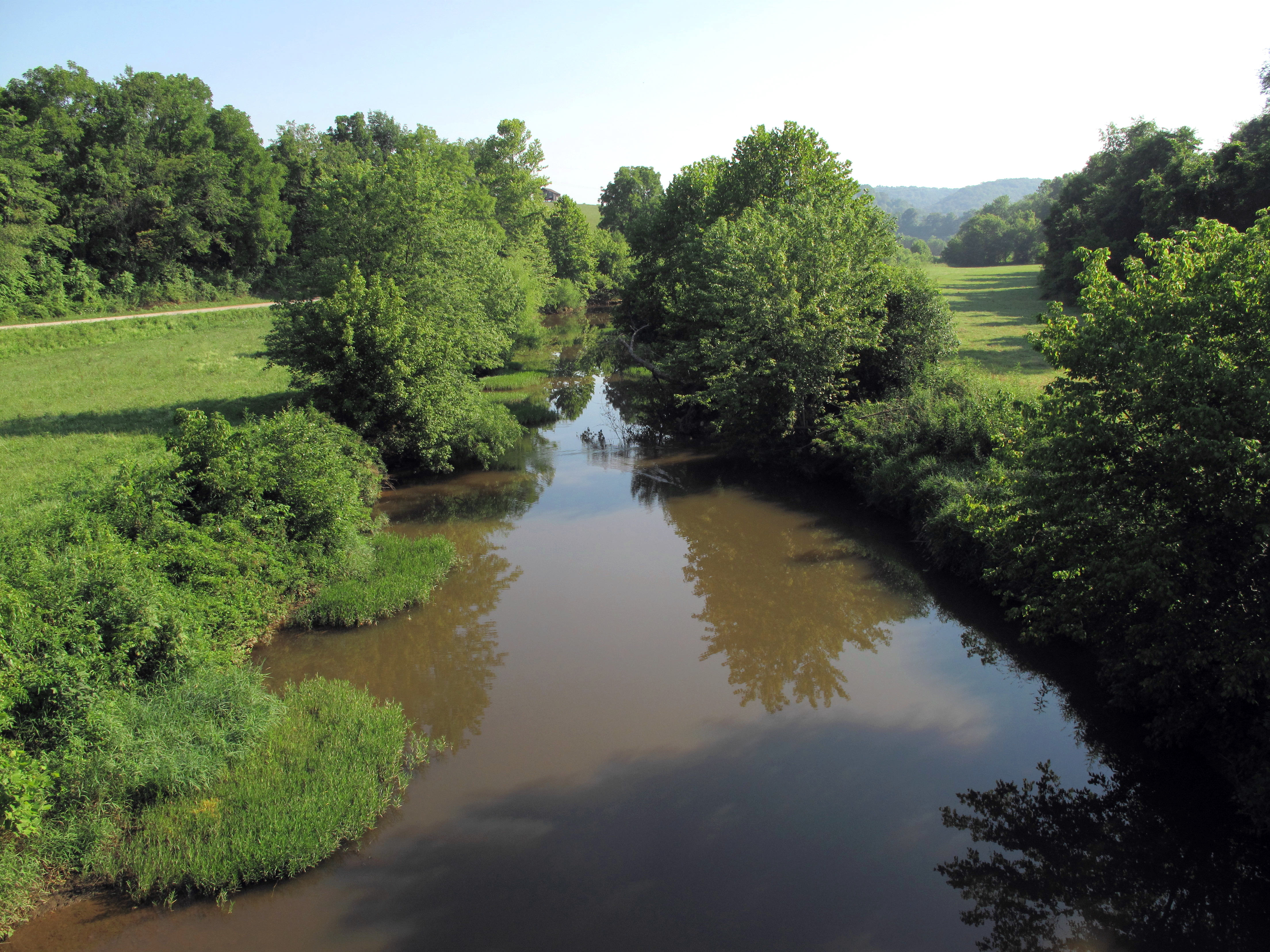 Reedy Creek (West Virginia) as viewed upstream from Roundbottom Run Road (County Road 14/15), north of the community of Lucille in Wirt County, West Virginia